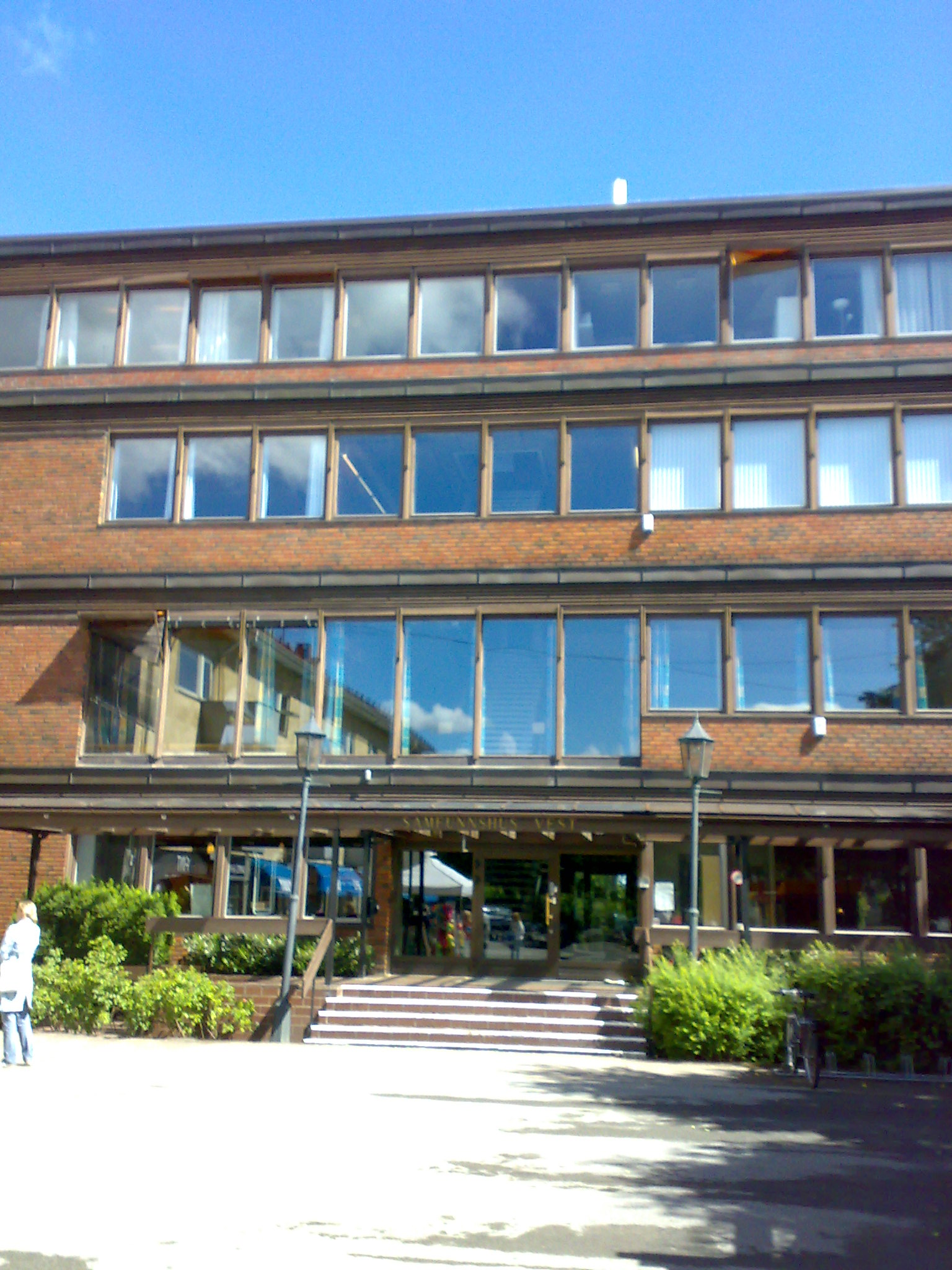 Samfunnshus Vest, Oslo, Norway